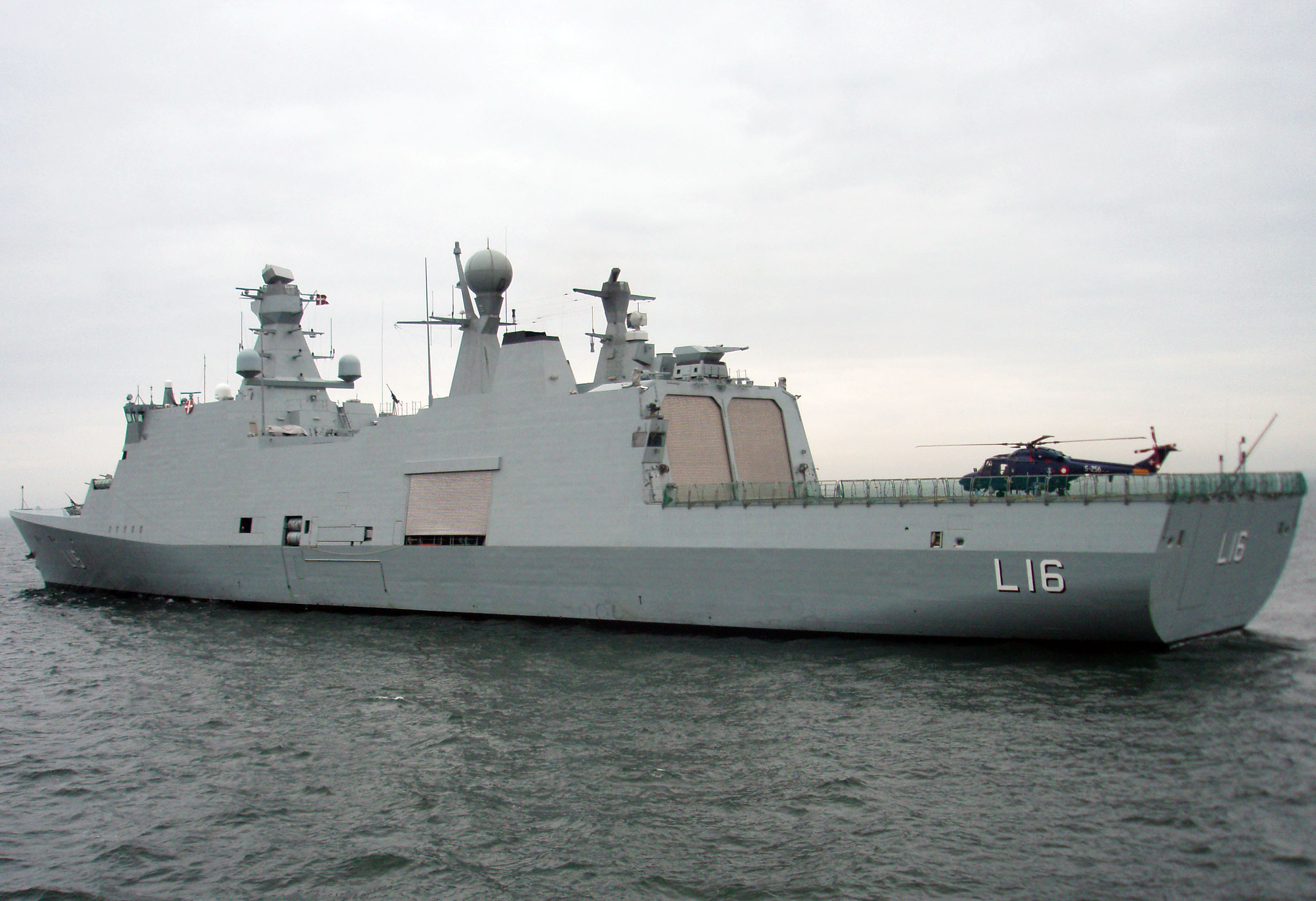 Danish navy Absalon (L16) with a Westland Lynx.